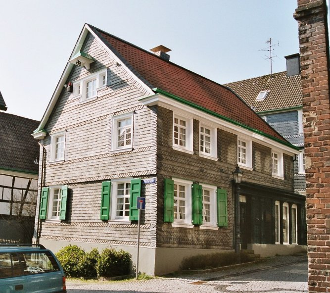 The house of birth of Wilhelm Conrad Roentgen in Remscheid-Lennep, Germany.